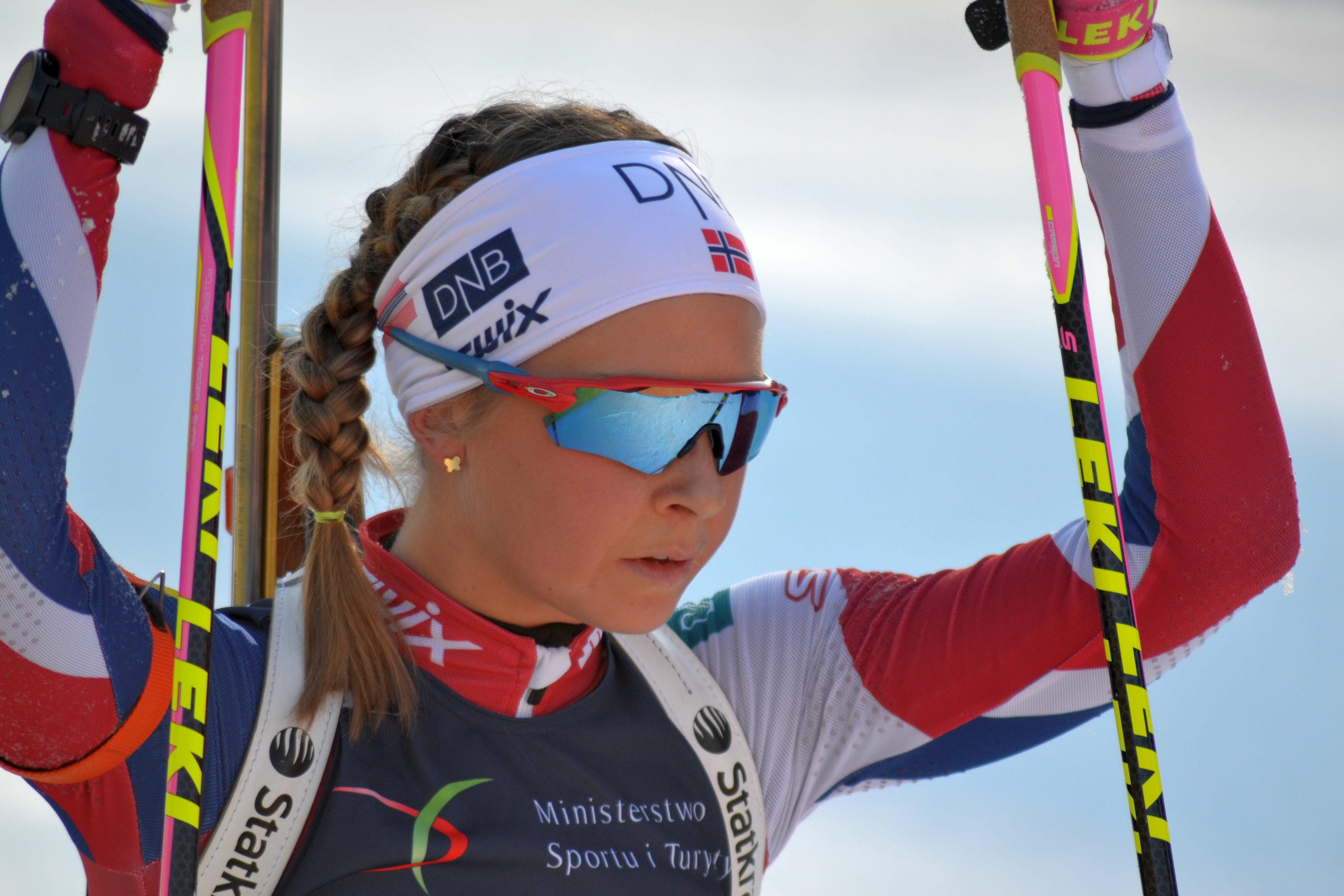 Open European Championships Biathlon 2017, Sprint Women's race, held on January 27th.